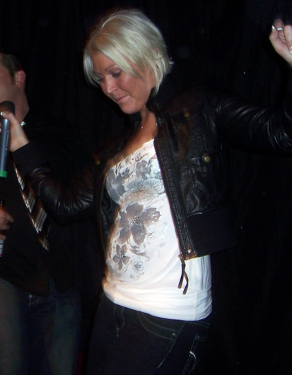 this is a photograph that I took myself of Jo O'Meara